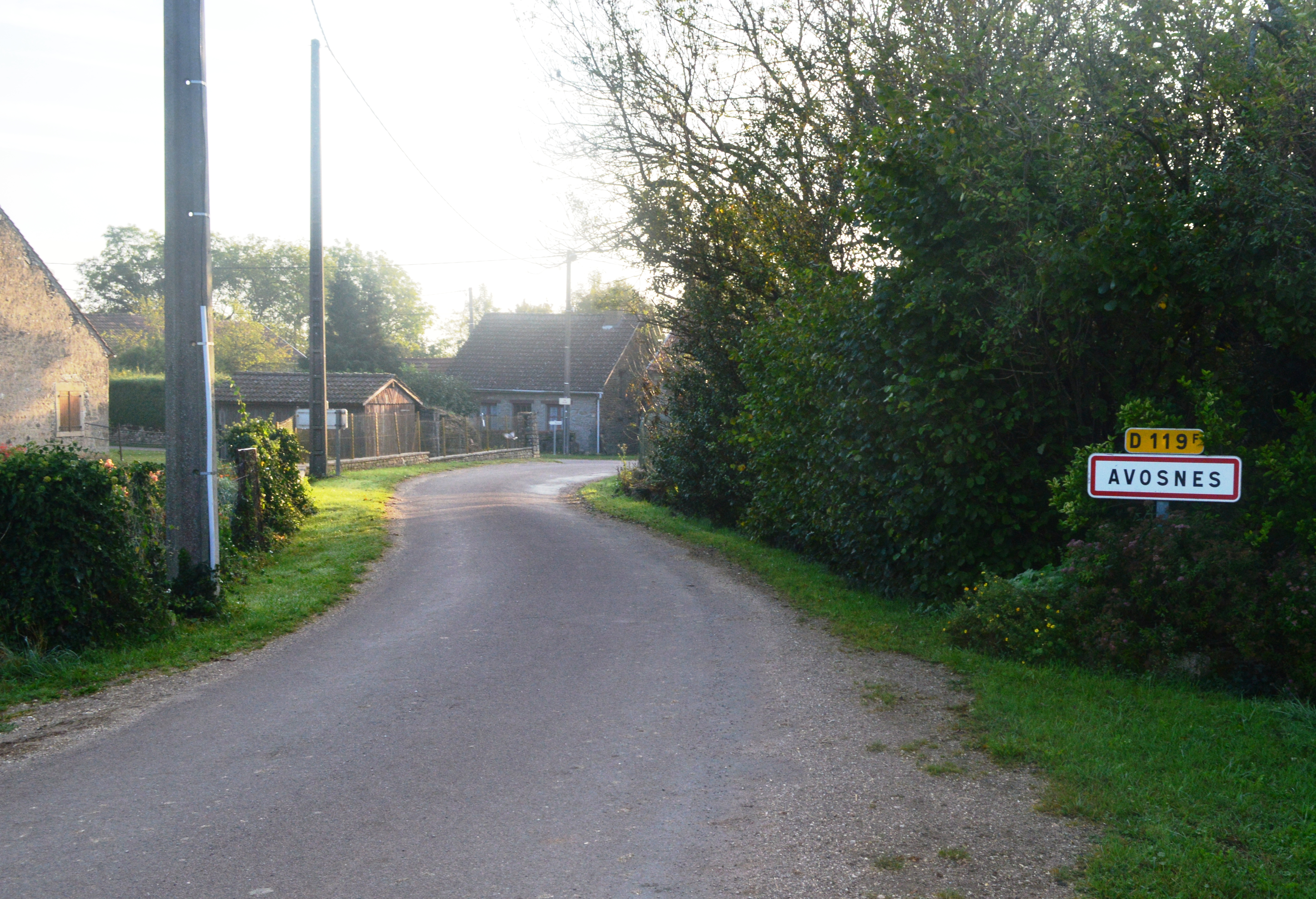 The entry to Avosnes